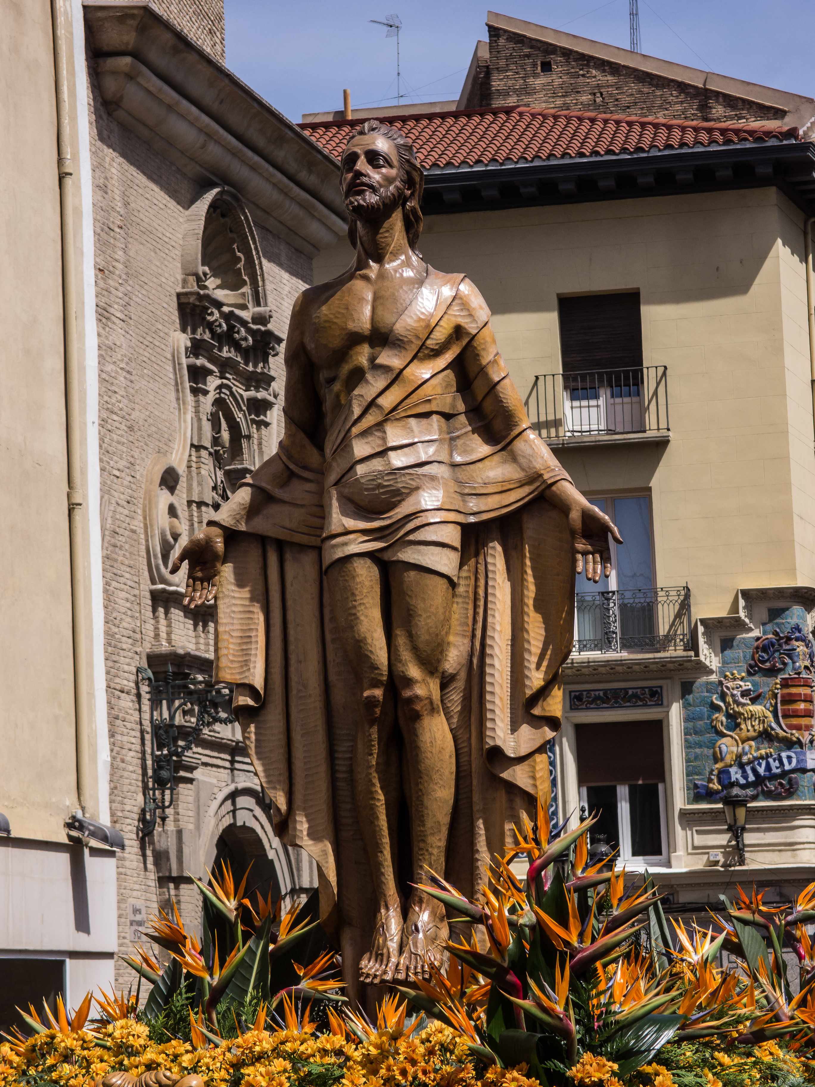 Domingo de Resurrección. Procesión del Resucitado. Zaragoza. This is a photography of a Folklore festival in Spain (Wikidata id Q9075892).